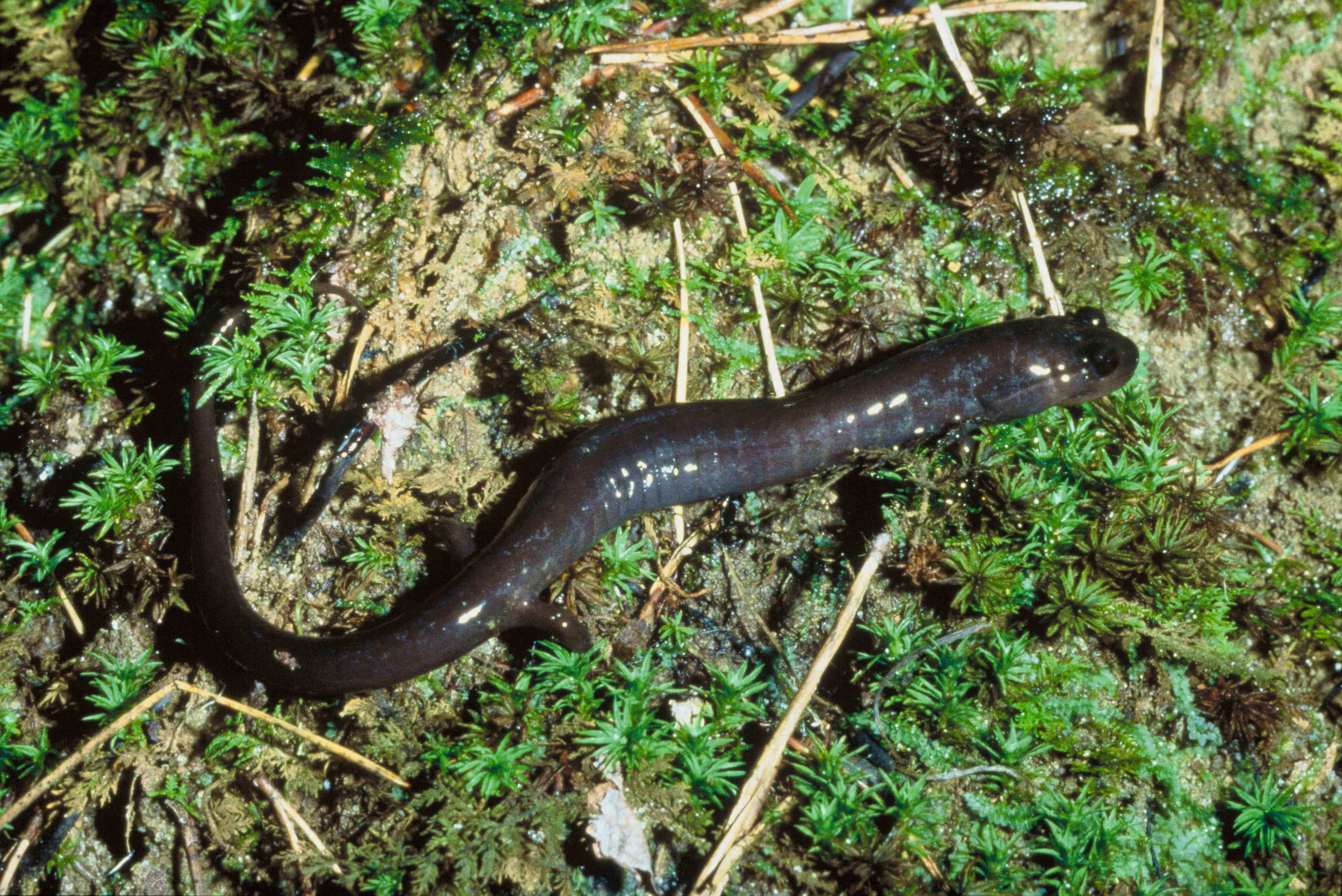 Image title: Red hills salamander Image from Public domain images website